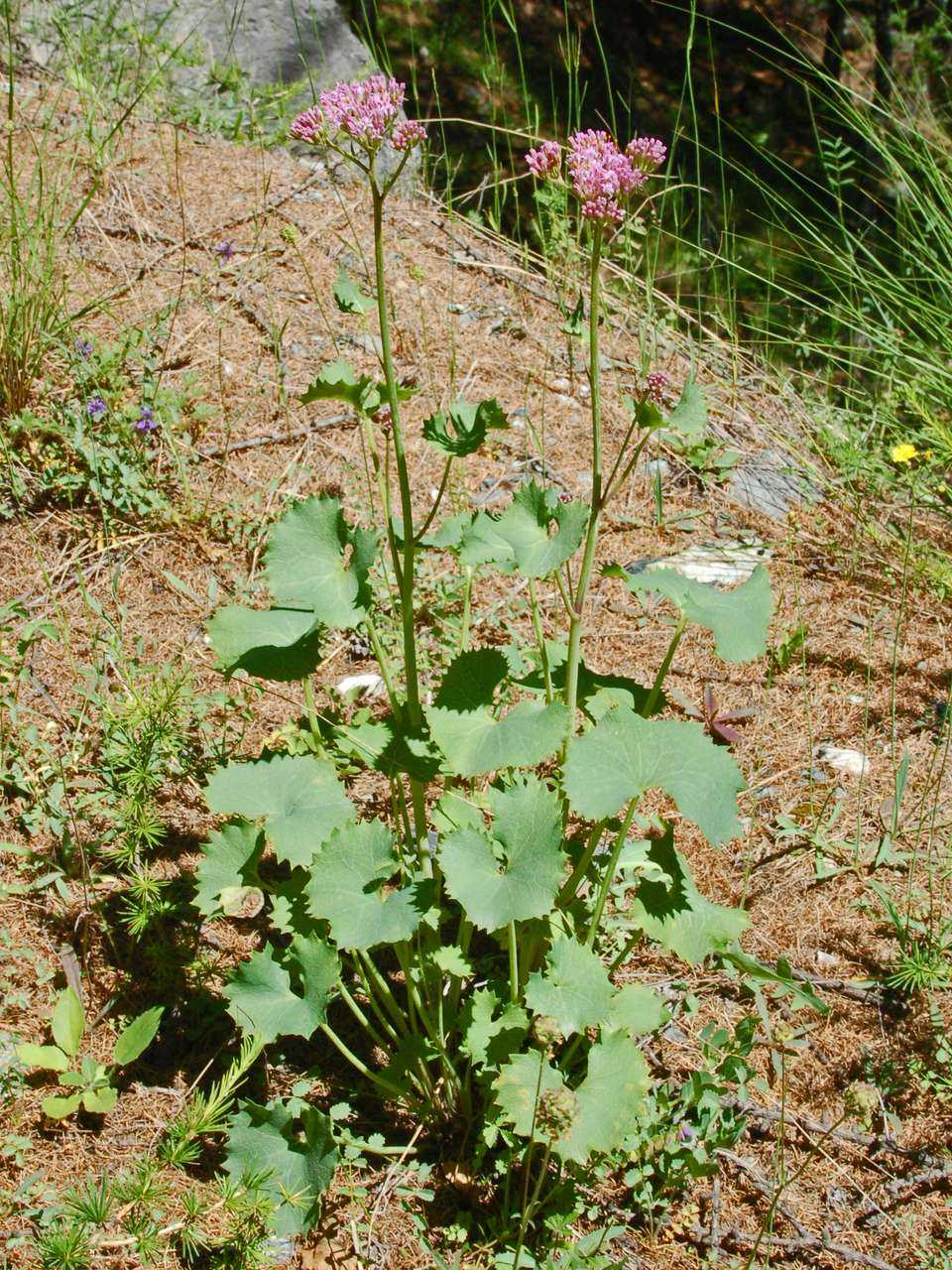 Adenostyles alpina - Valle Argentera, Torino, Italy